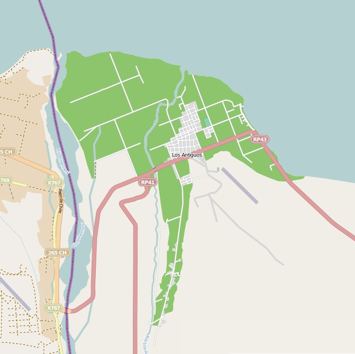 mapa de los antiguos